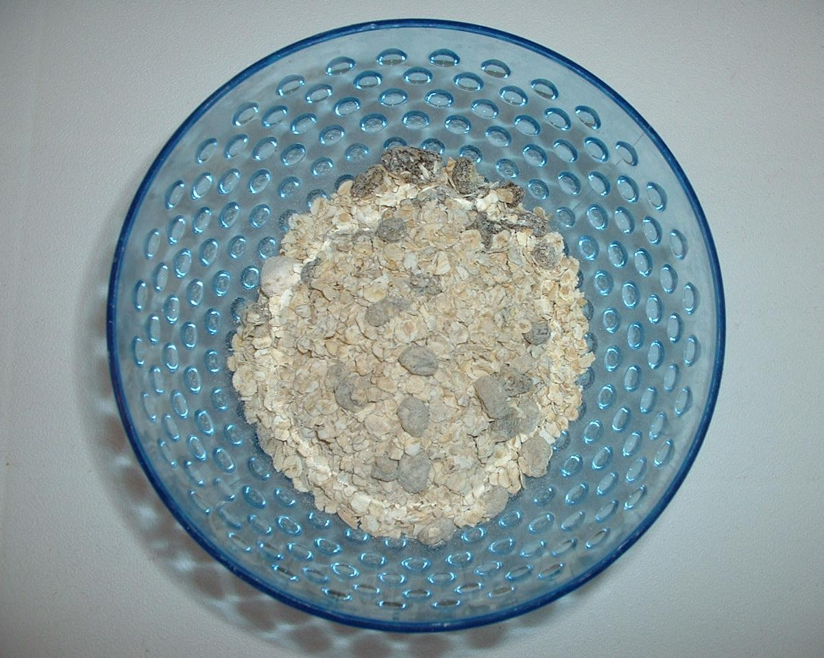 Oatmeal and raisins, before being cooked. Taken by User:CryptoDerk on January 20, 2005.